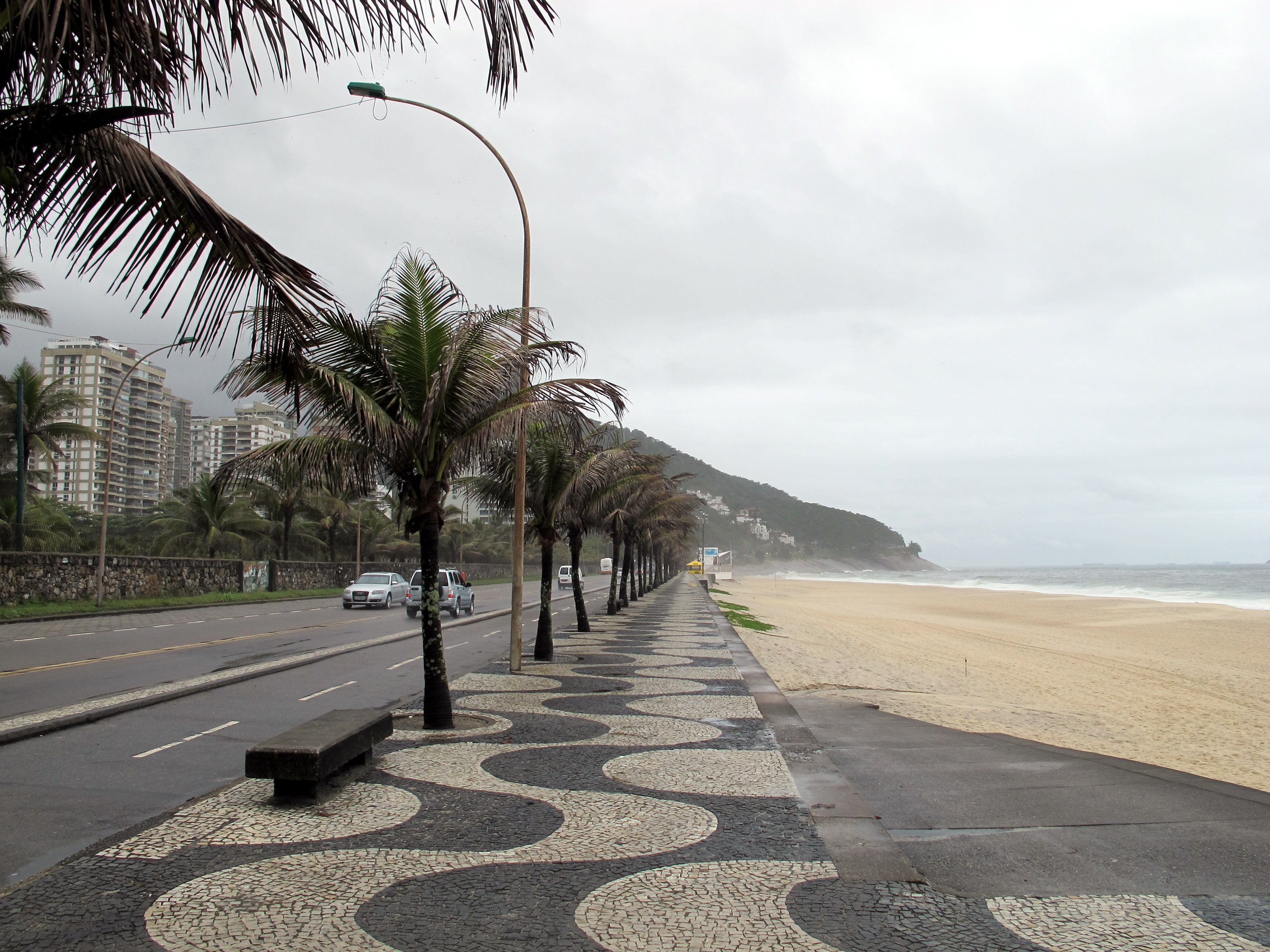 São Conrado beach in Rio de Janeiro